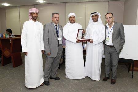 Third place in the “Business Judging” category ,4th UAE Software Development Trade Show ,Wollongong University , Dubai .2010